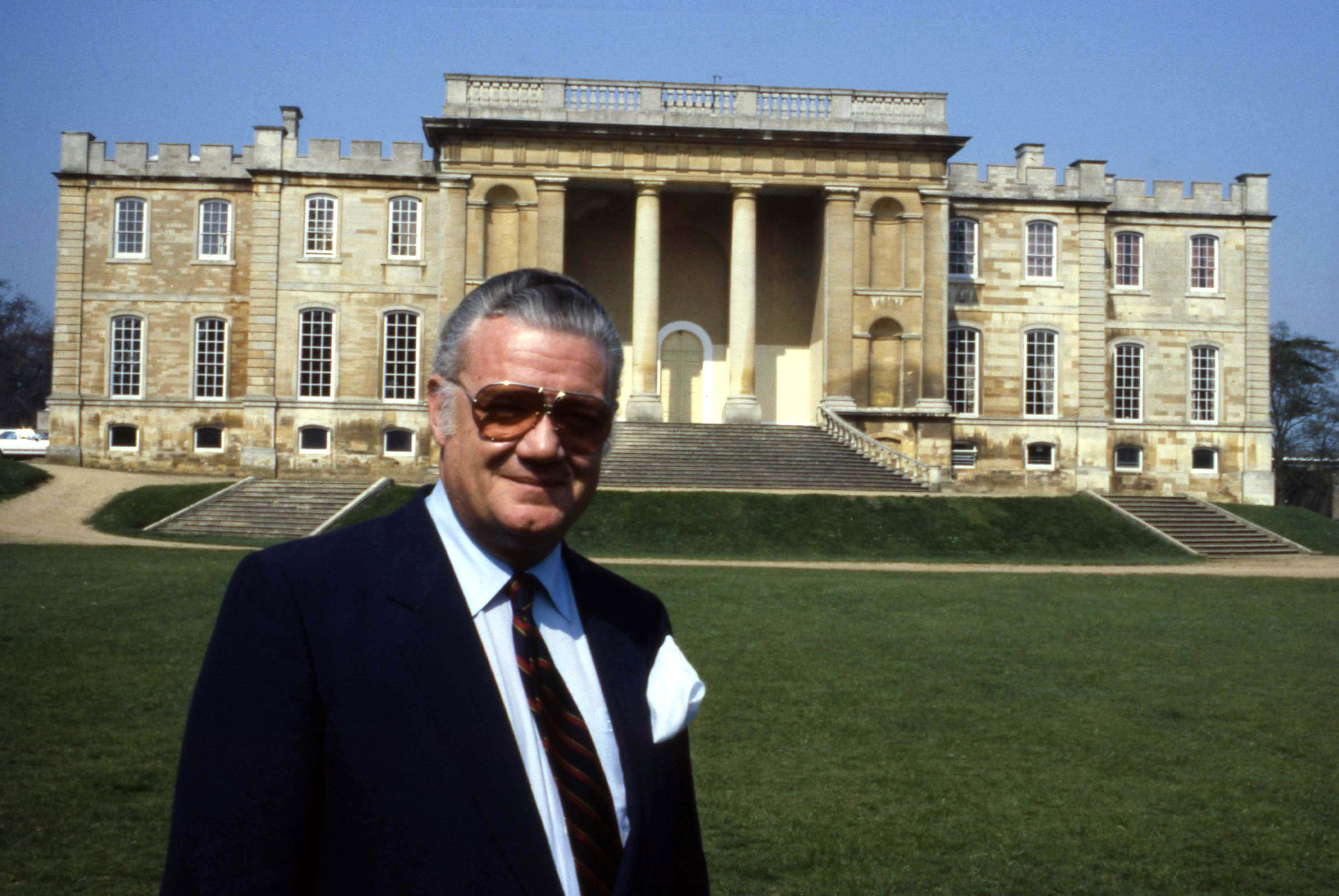 portrait 12th Duke of Manchester